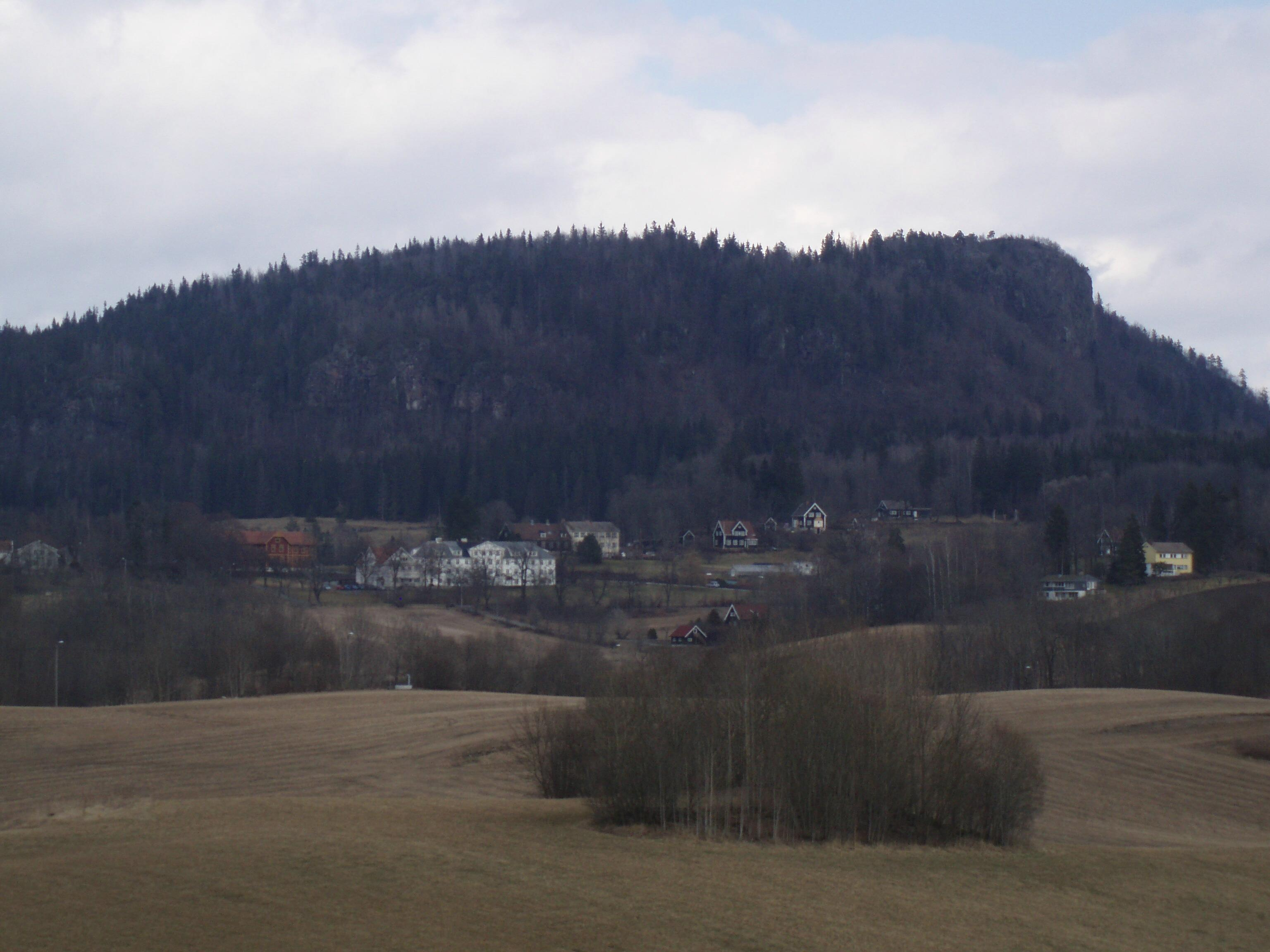 A picture of the forested mountain Skaugumsåsen, located in the municipality of Asker, Norway.